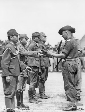 Japanese officers hand their swords to an Australian Army officer following the surrender of the Japanese 18th Army on 13 September 1945. AWM photo 096234